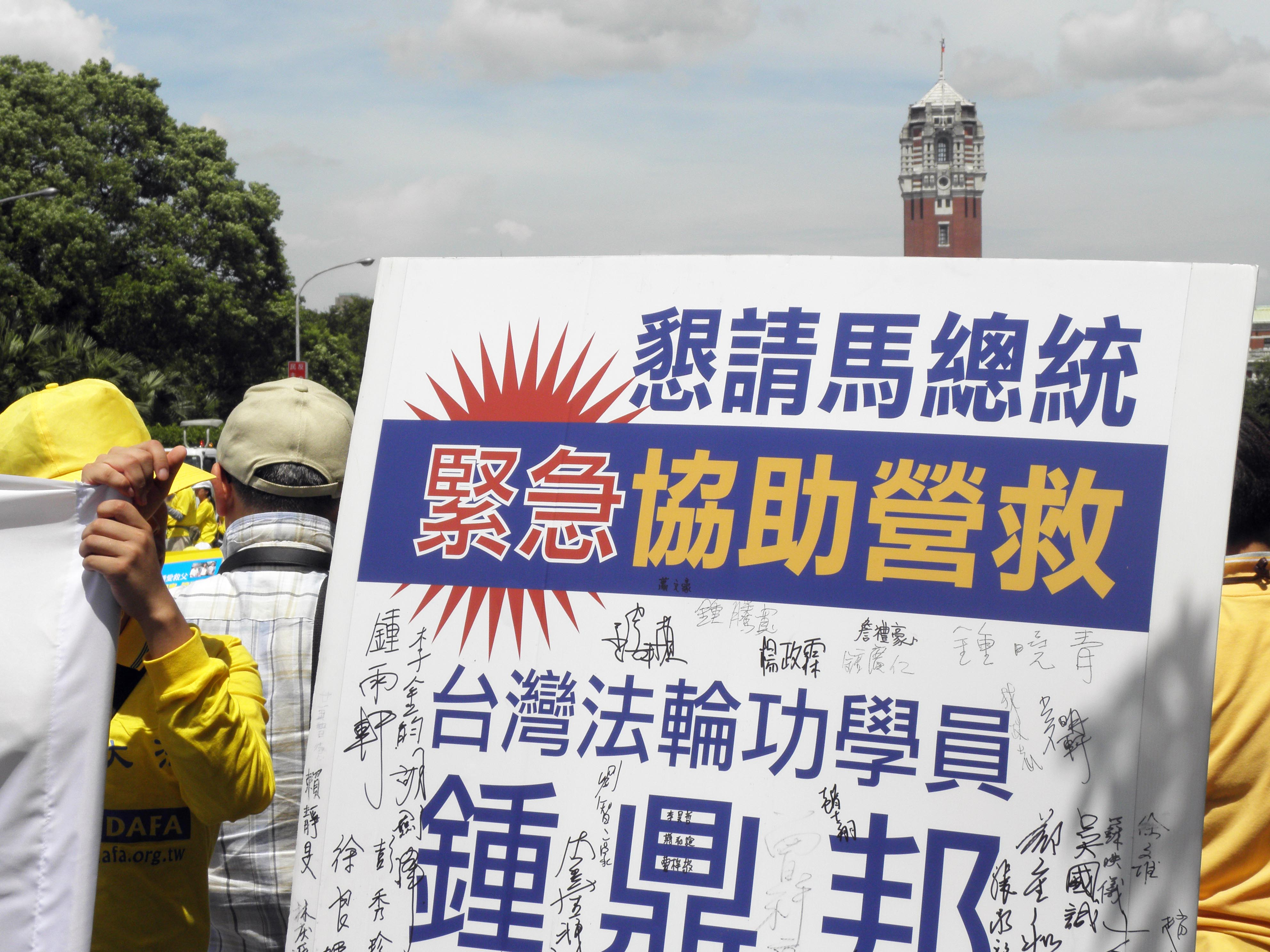 Falun Gong practitioners gathered at the Taiwan President's Office to ask Ma Ying-jeou to take action to rescue Chung Ting-pang 台湾法轮功在总统府前集会要求救援钟鼎邦 (美国之音叶兵拍摄)